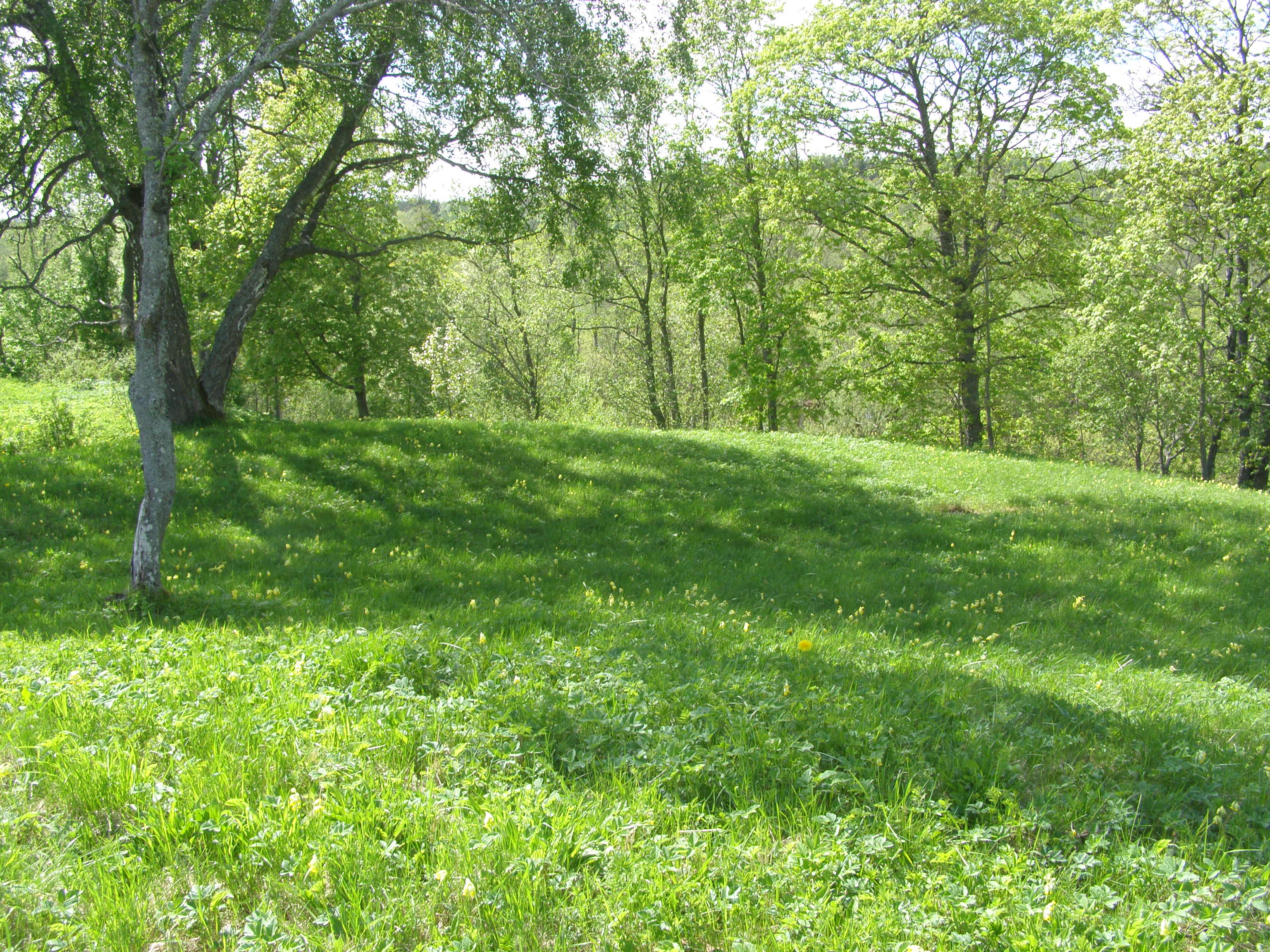 Biržuvėnai hillfort, Telšiai district, LithuaniaLietuvių: Biržuvėnų piliakalnis, Telšių rajonas, Lietuva